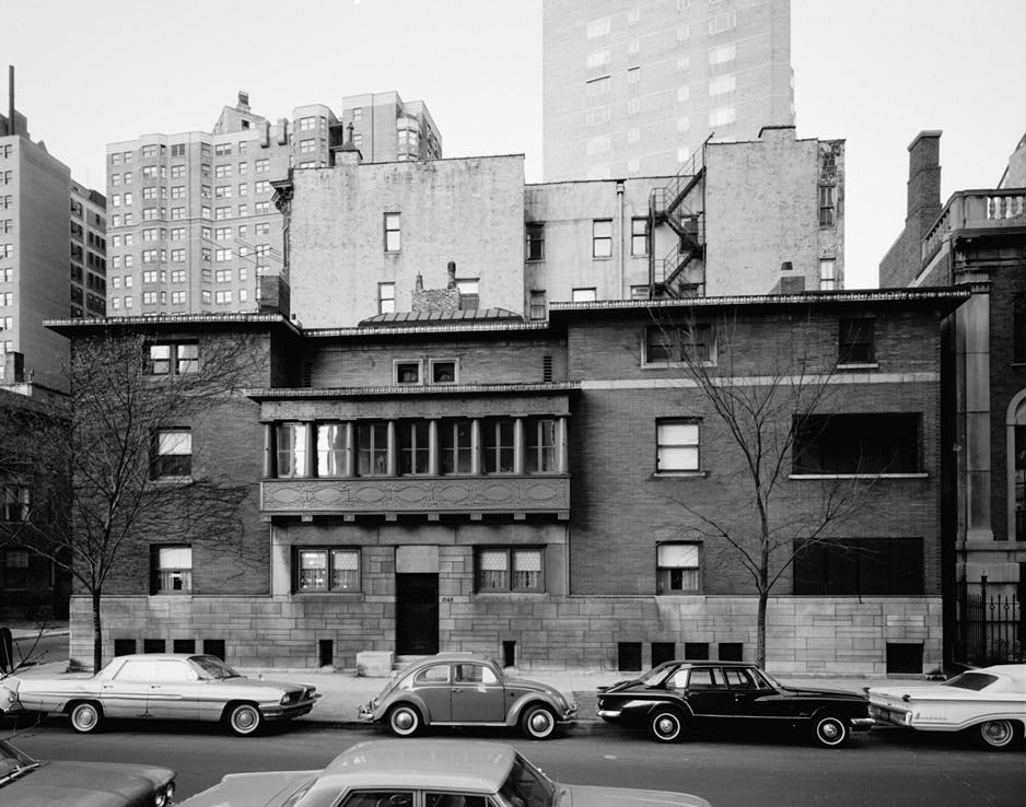 West (front) elevation of James Charnley House, 1365 North Astor Street, Chicago, Cook County, IL. After extension.